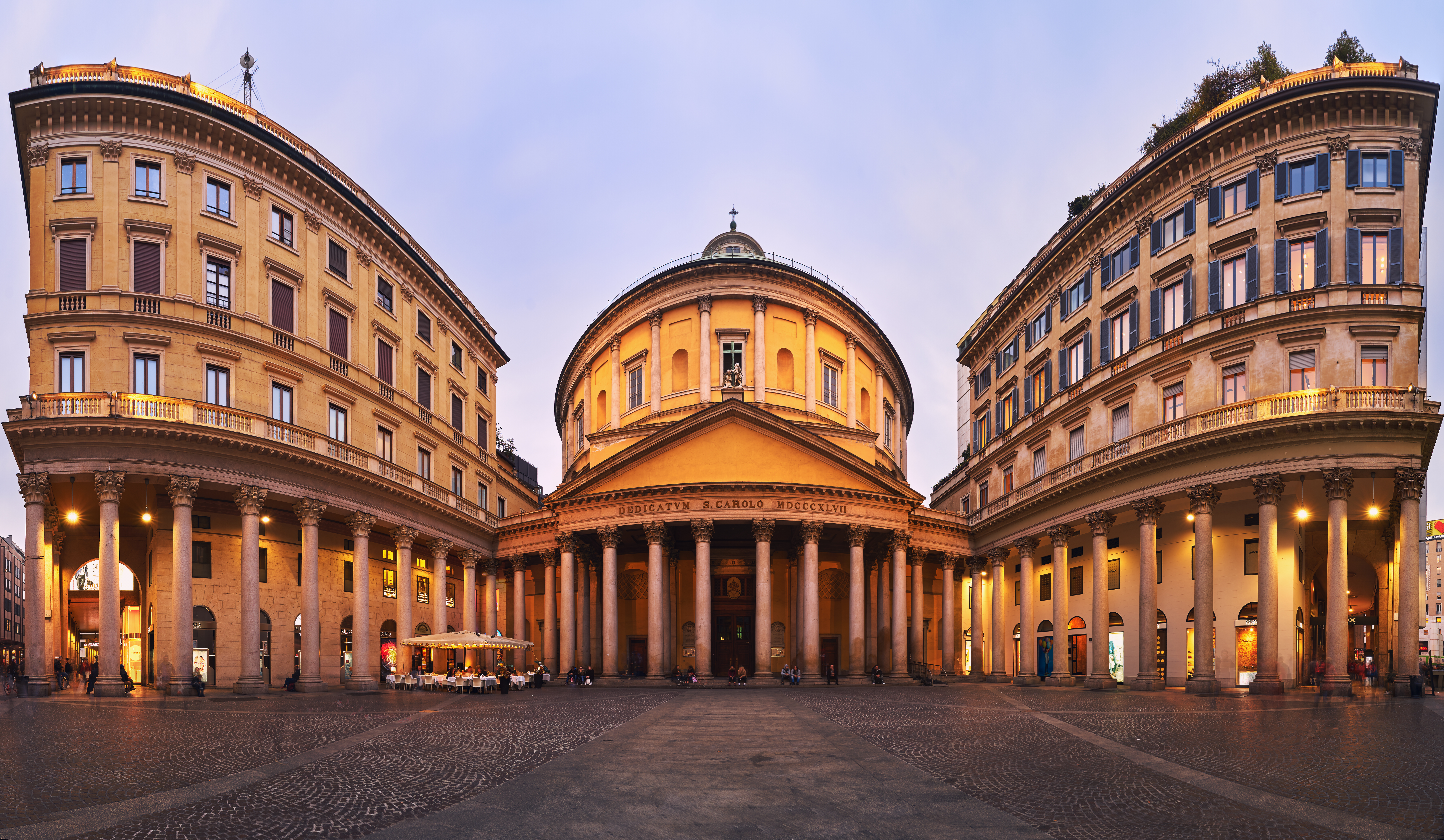 Basilica of San Carlo al Corso